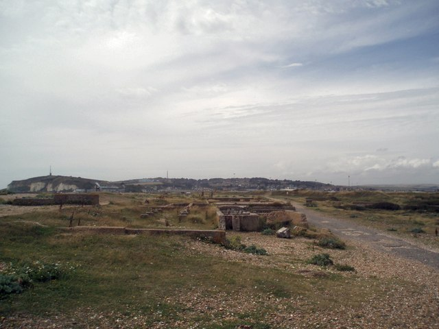 Ruins of Chailey Heritage Marine Hospital The hospital was built in 1924, to provide aftercare and recovery for disabled boys who had undergone surgery. Plaques on the site speak of a charitable foundation, the "Guild of the Poor Brave Things", that founded the hospital as part of the Chailey Heritage created by Dame Grace Kimmins in 1903. The nurses home was inland and the hospital built on foundations on the shingle beach itself The ruins show very weathered concrete foundations onto which were fixed what appear to be wooden buildings. Plaques on the site show beds wheeled into the fresh air - "Nature's Antibiotic". Very close to, and on the landward side of the hospital, was the Lily Warren nurses' home.